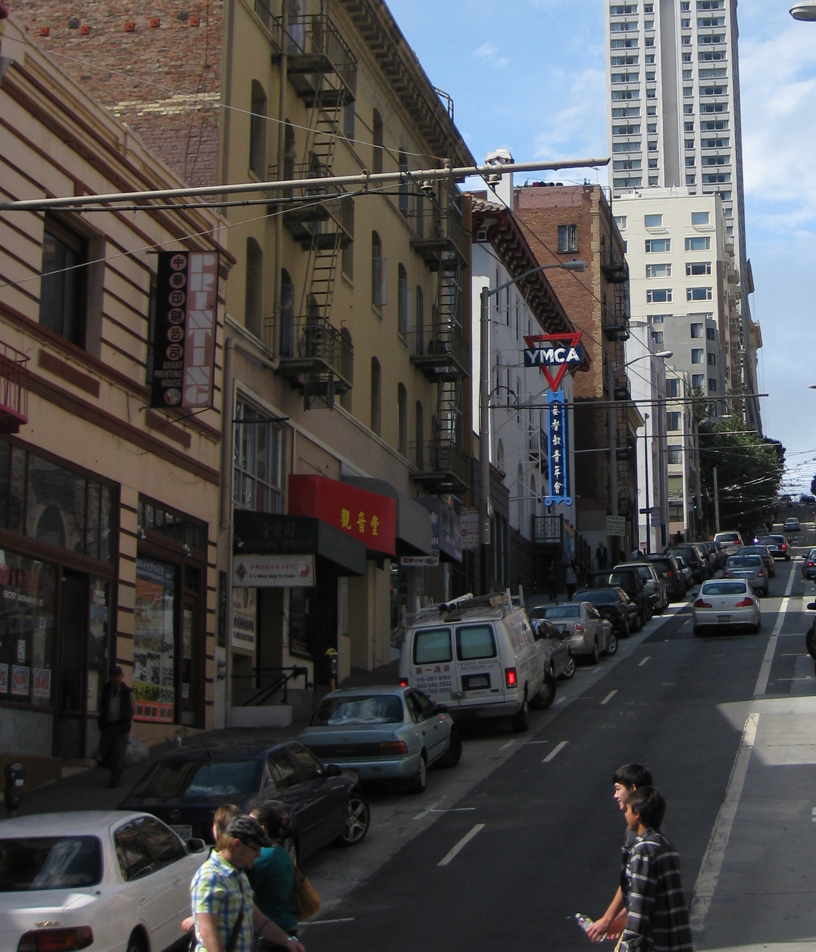 China Town, San Francisco